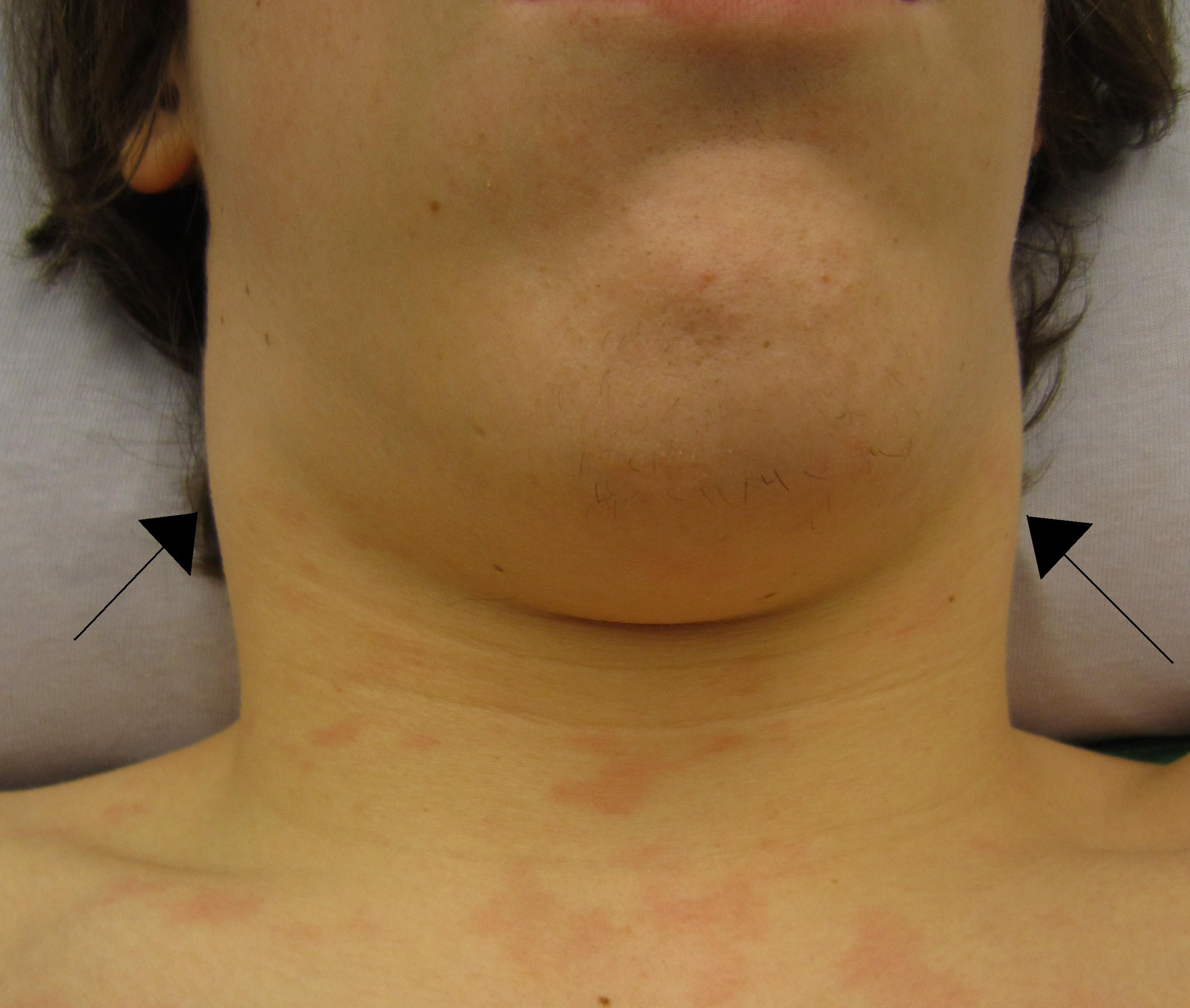 Lyphadenopathy in someone with mononucleosis